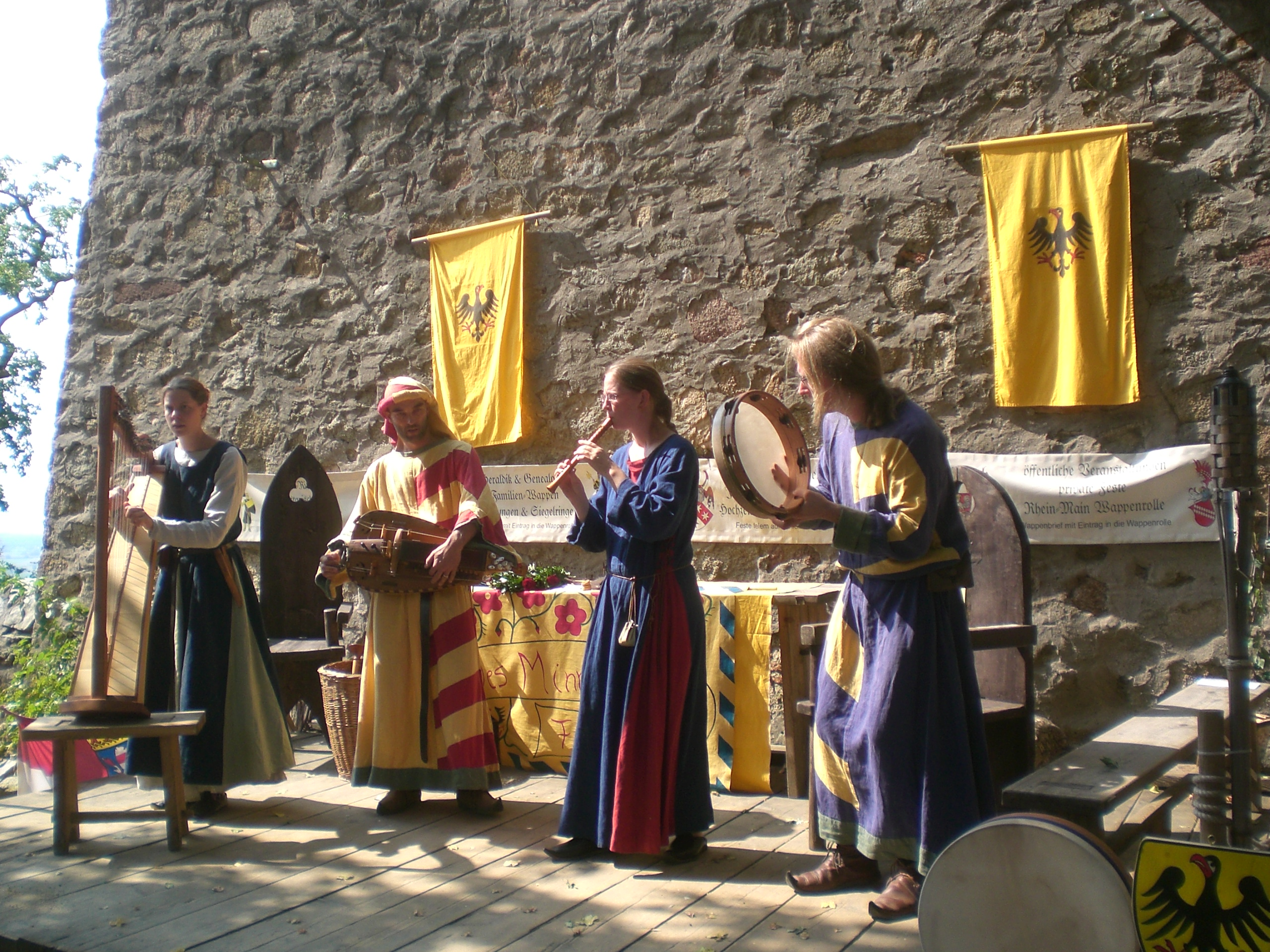 medieval festival in the castle of Alsbach, Bergstraße (Germany)